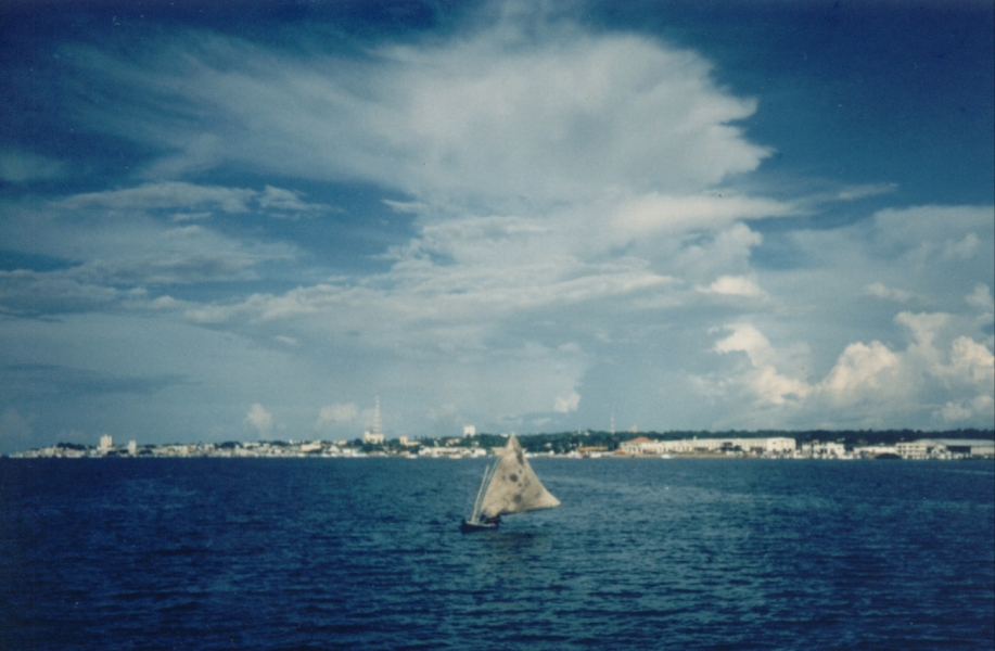 City of Santarém, Pará State, Brazil (1990). Tapajós River.